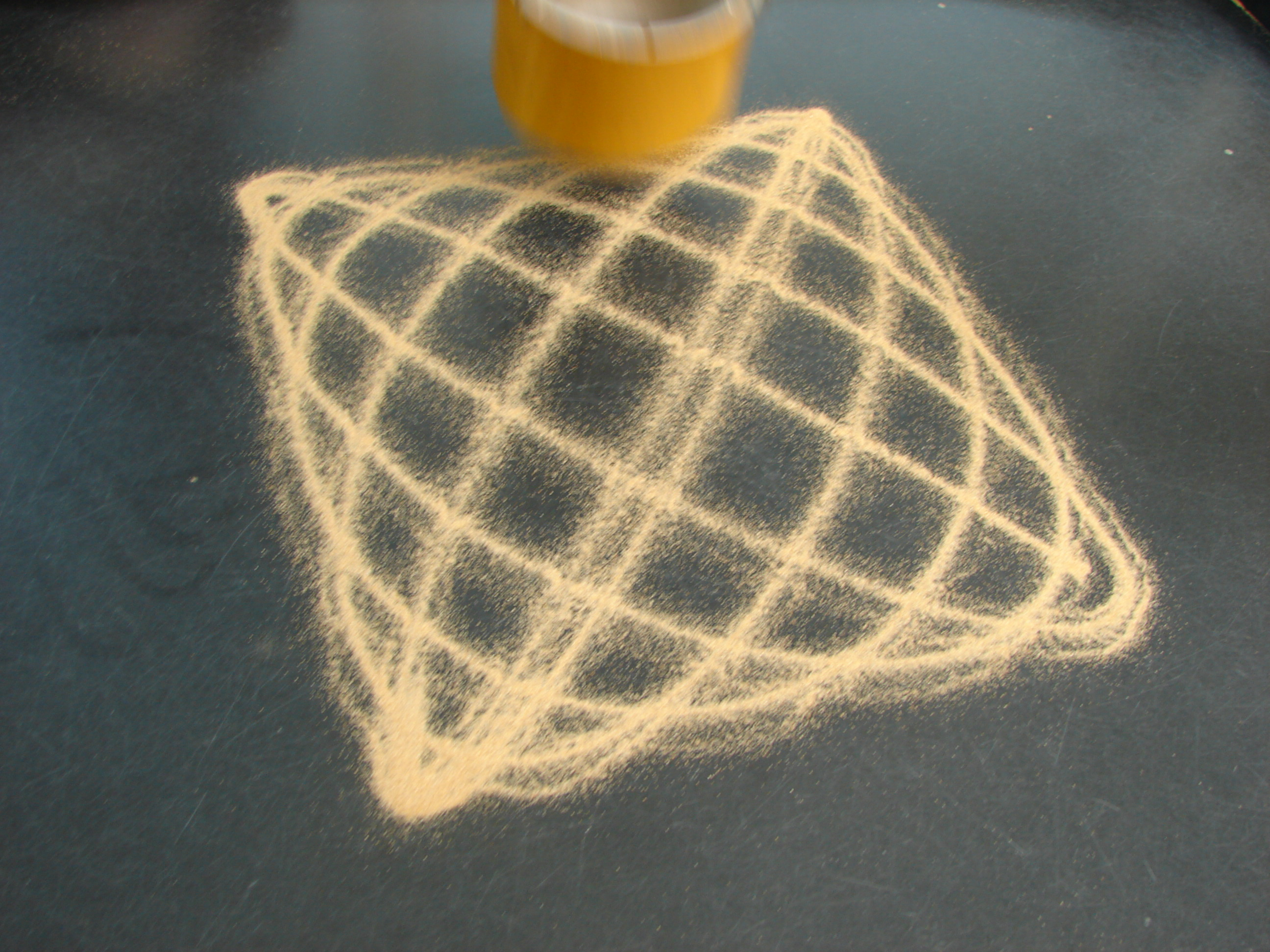 In this photograph a box of sand with a hole in bottom is hanged from a string and swinged freely. Sands form a Lissajous figure on surface. In mathematics, a Lissajous curve (Lissajous figure or Bowditch curve) is the graph of the system of parametric equations which describes complex harmonic motion. This family of curves was investigated by Nathaniel Bowditch in 1815, and later in more detail by Jules Antoine Lissajous in 1857.